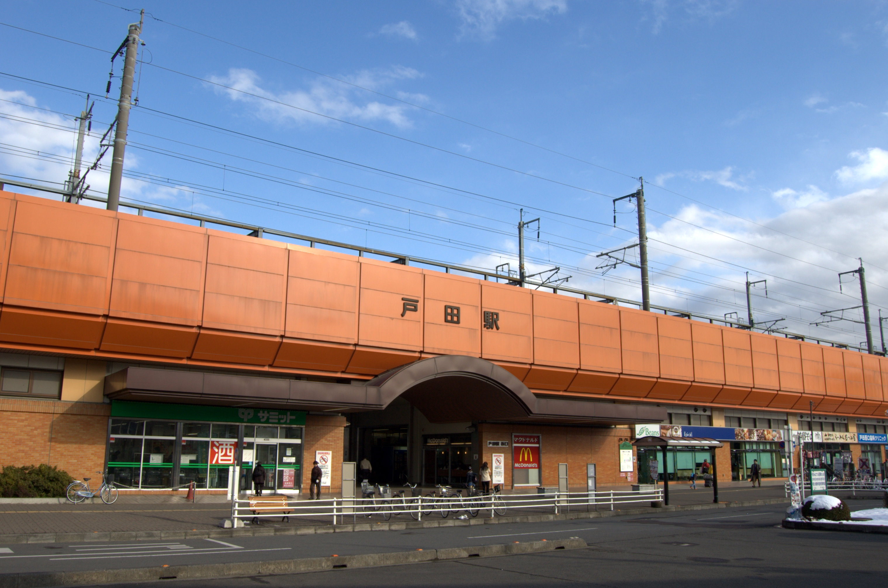 West side of Toda Station on the Saikyo Line in Toda, Saitama Prefecture, Japan